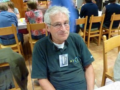 Norbert A'Campo, El Escorial 2010